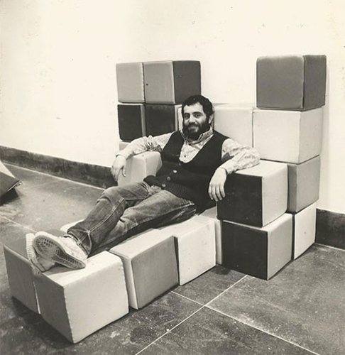 Izika Gaon, sitting on a sculpture in the exhibition 'Sculpture Games'. Gaon curated for the Youth Wing of Israel Museum. Jerusalem, 1972